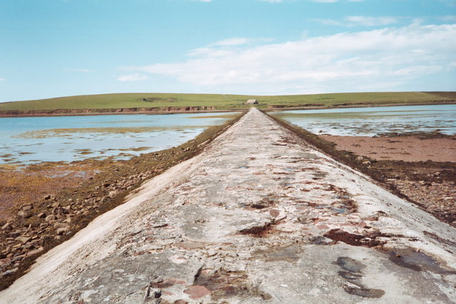 Causeway connecting Burray to Hunda (in the background), Orkneys, Scotland